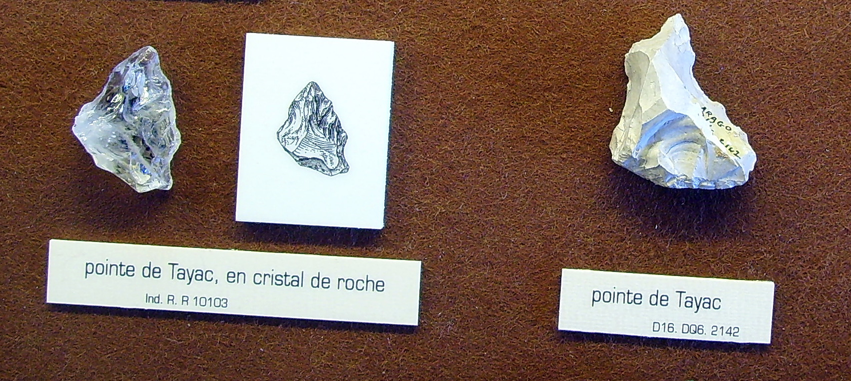 Museum Tatavel: Stone tool from Tautavel (Arago Cave), France